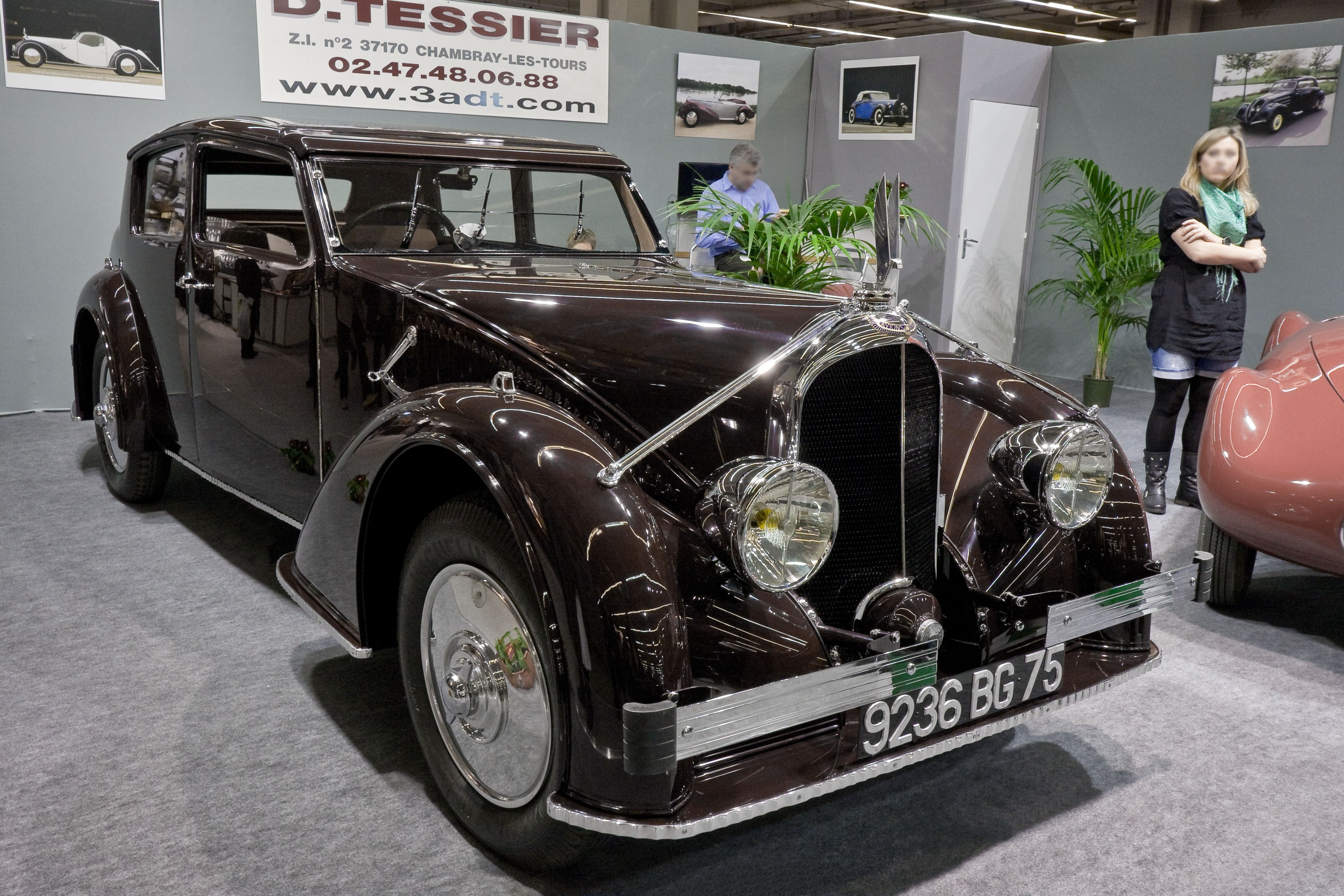 Avion Voisin C28 (1936)